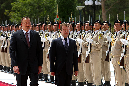 BAKU. Official greeting ceremony.